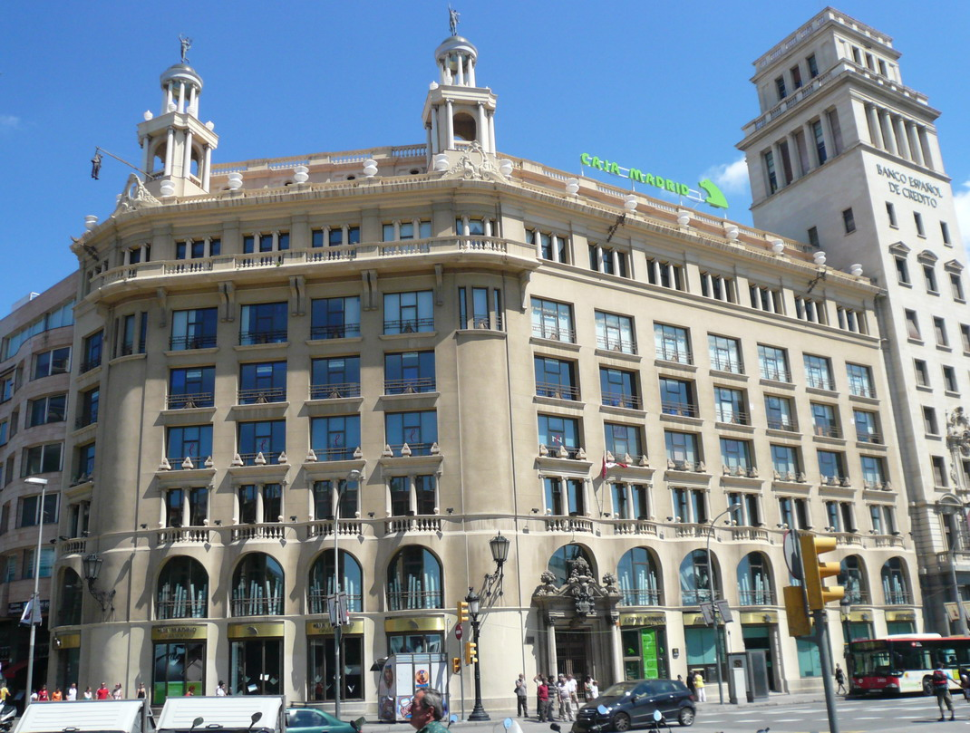 Casa Pich i Pon, Barcelona.